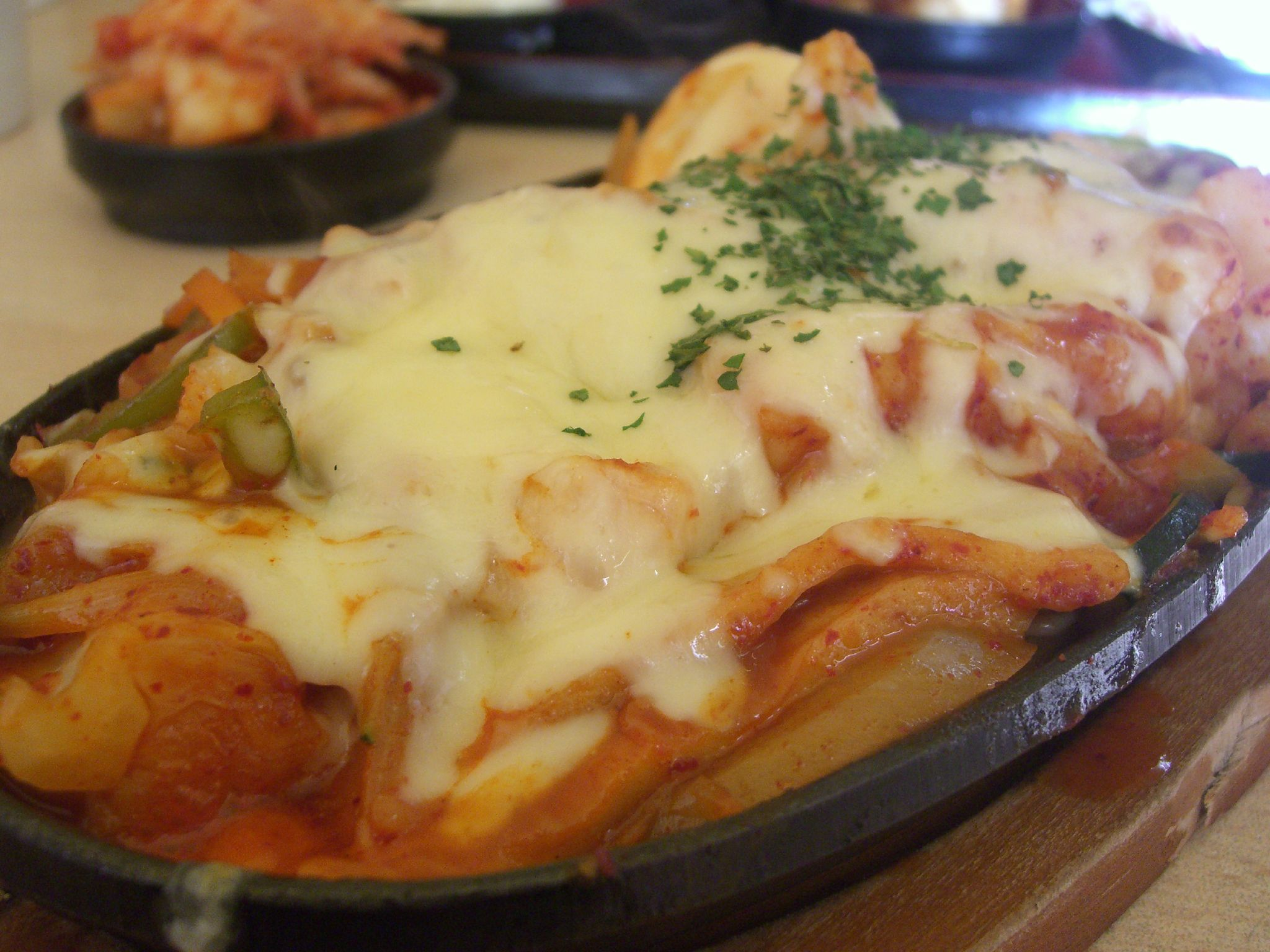 Cheese tteokbokki, Korean fusion food